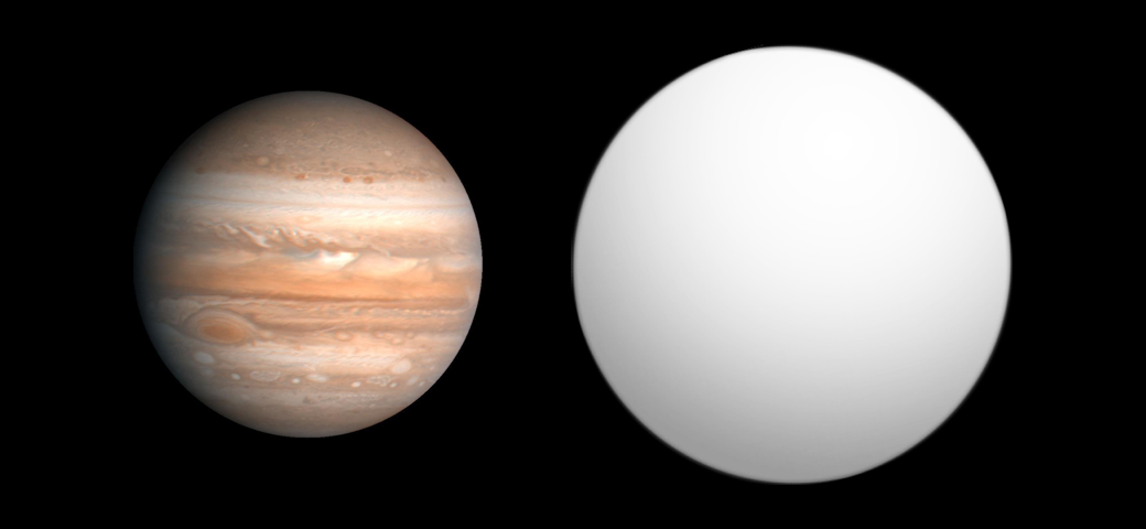 Comparison of best-fit size of the exoplanet OGLE-TR-211 b with the Solar System planet Jupiter, as reported in the Extrasolar Planets Encyclopaedia[1] as of 2010-10-03. ↑ Extrasolar Planets Encyclopaedia (2010-09-30). Retrieved on 2010-10-03.